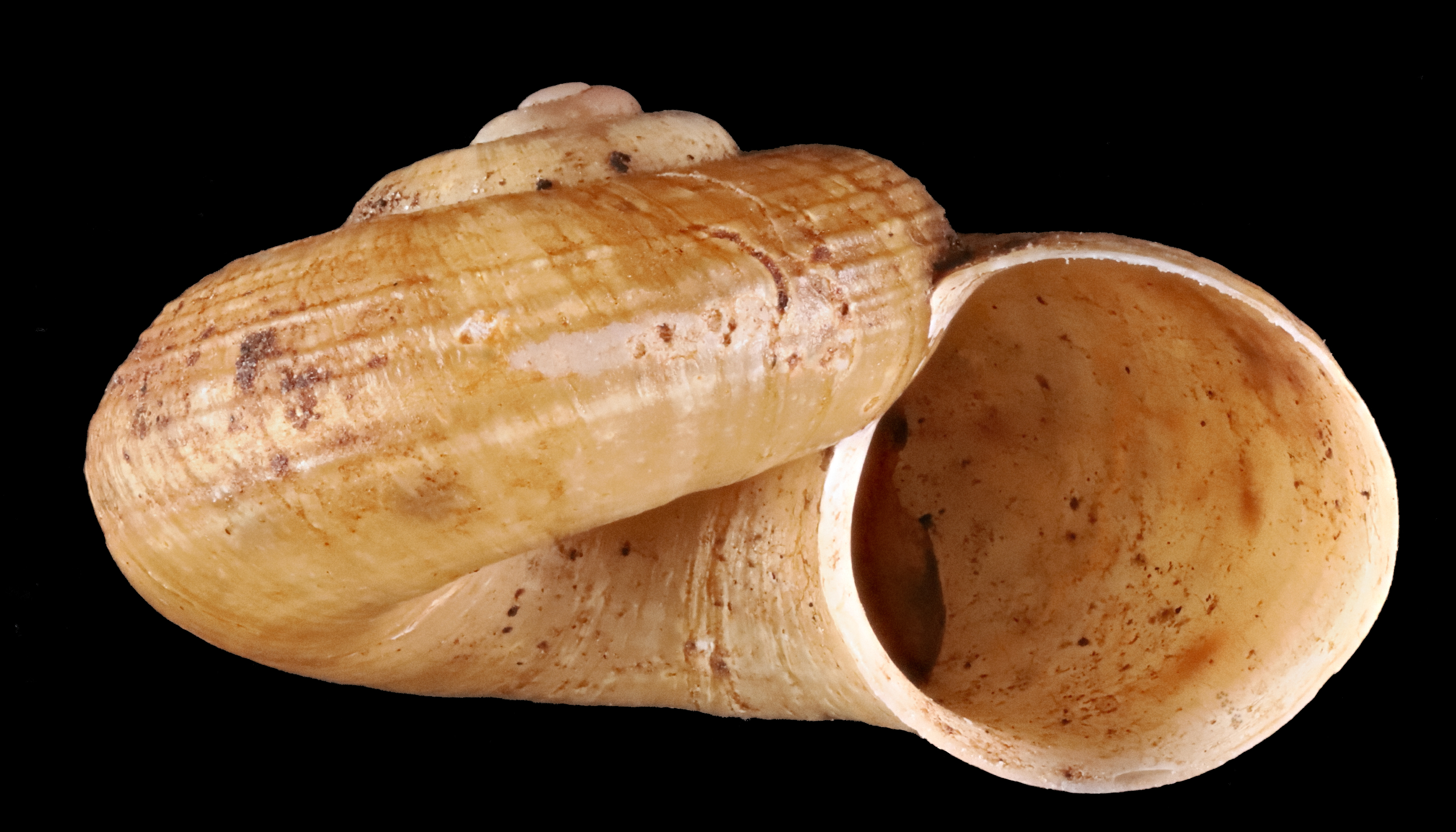 specimen collected at Crete de Village, on the Basse-Terre Island, Guadeloupe; shell greater length 9.0 mm.